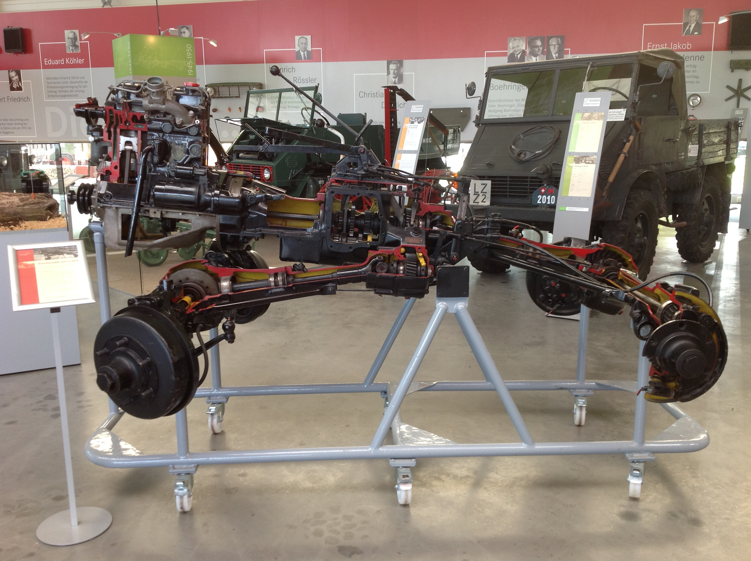 Unimog U2010 chassis. Used in the Swiss Army for training of the mechanics.